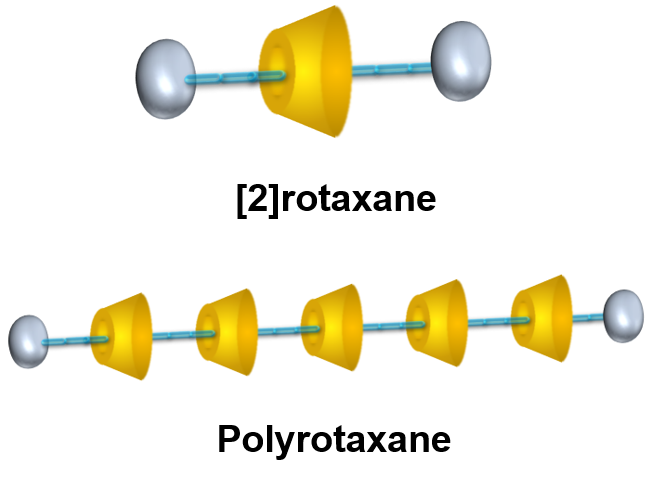 Schematic illustration of [2]rotaxane and Polyrotaxane(CC: May Lam)